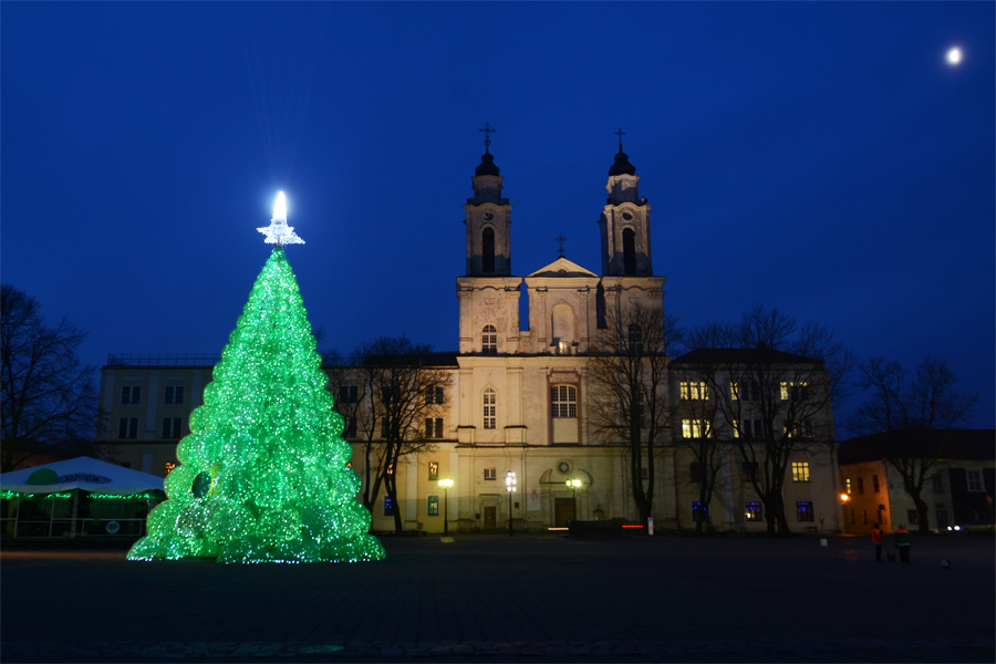 Christmas Tree Made of 32000 Recycled Plastic Bottles in Kaunas, Lithuania.